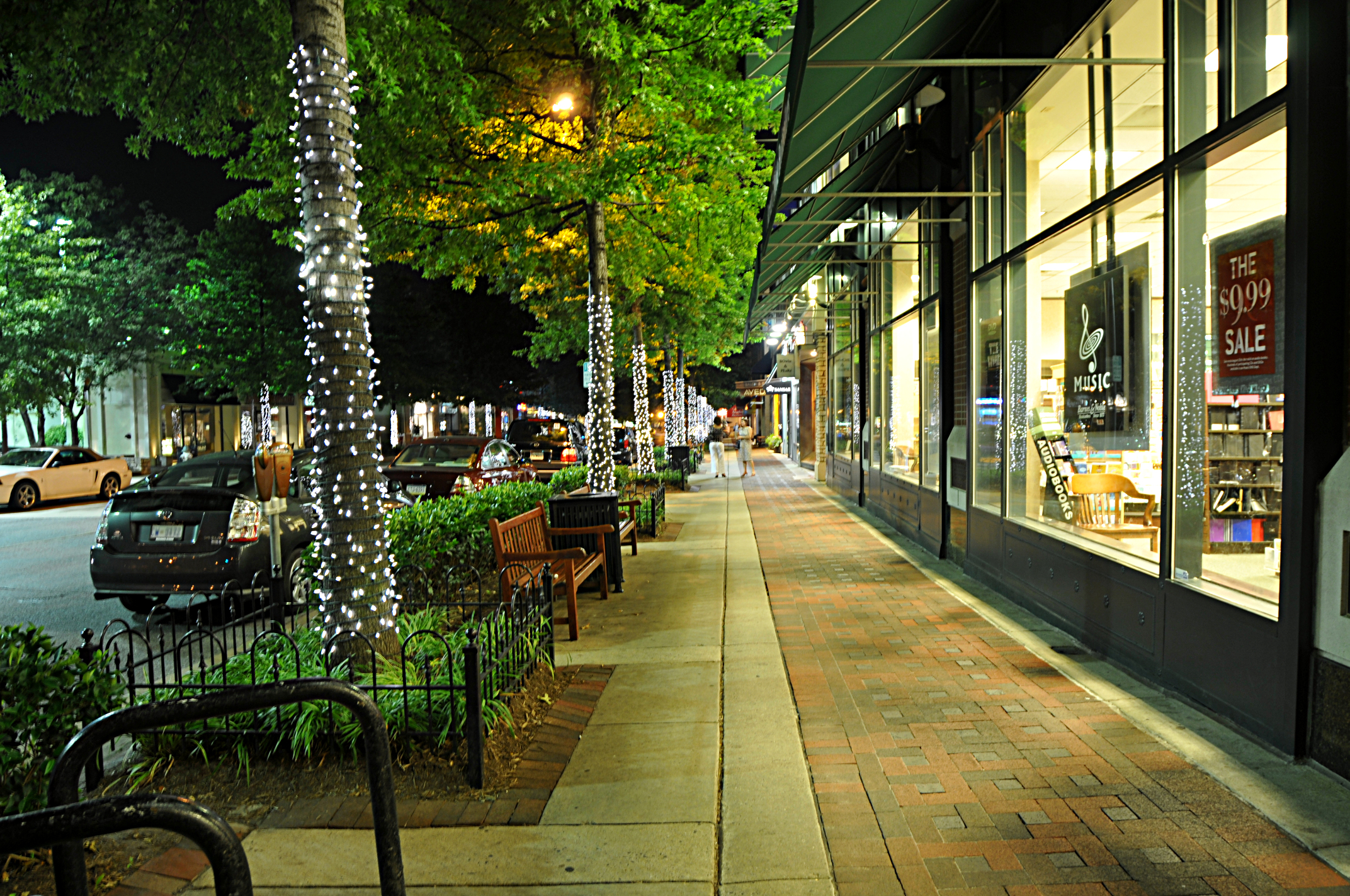 Bethesda Ave at night, Bethesda, MD Looking down the sidewalk by the Barnes and Noble. by G. Edward Johnson